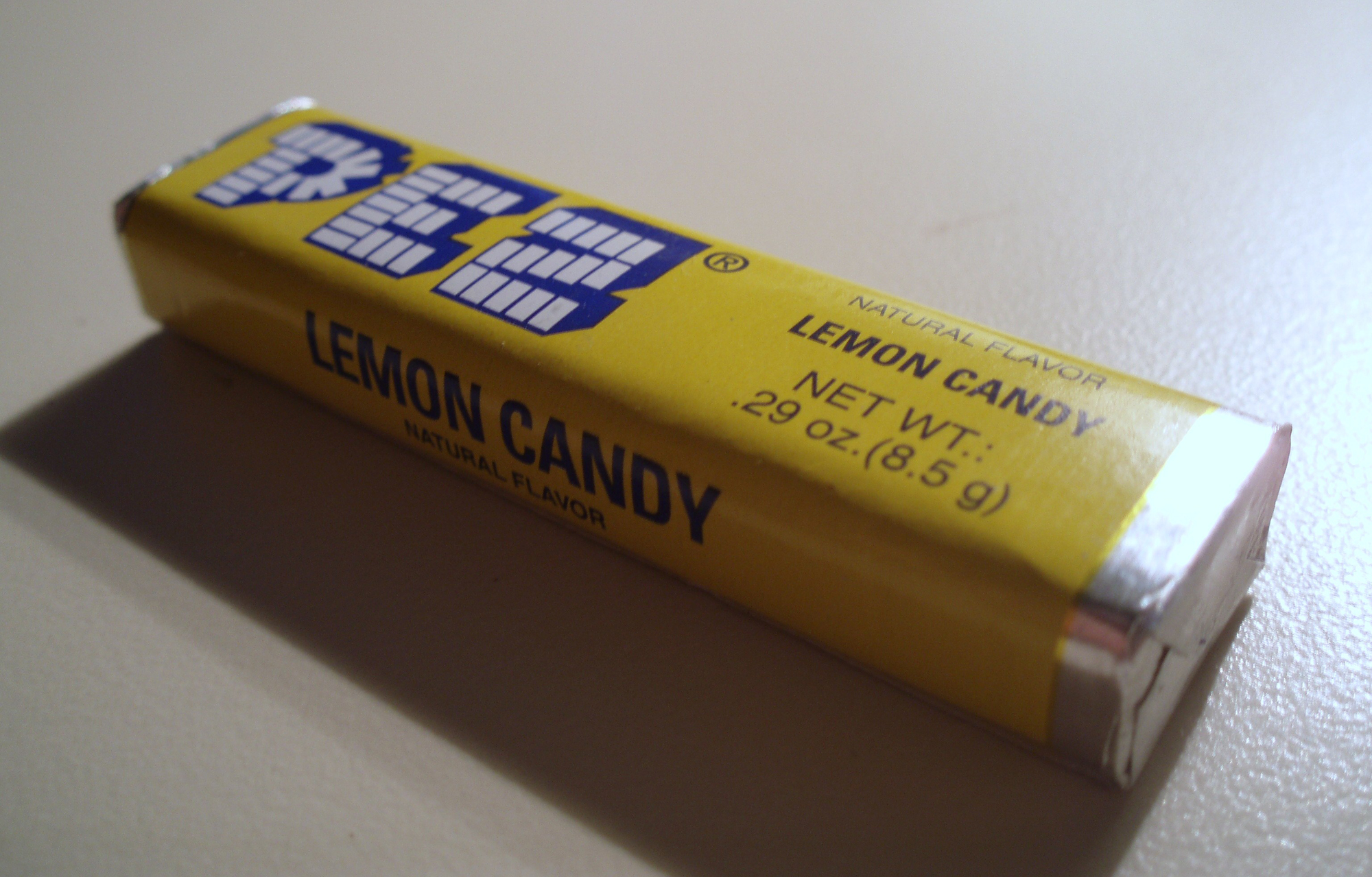 A small pack of lemon flavored Pez